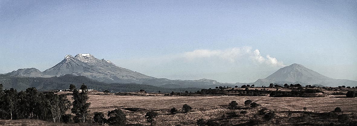 Panorámica del Popocatepetl e Iztaccíhuatl